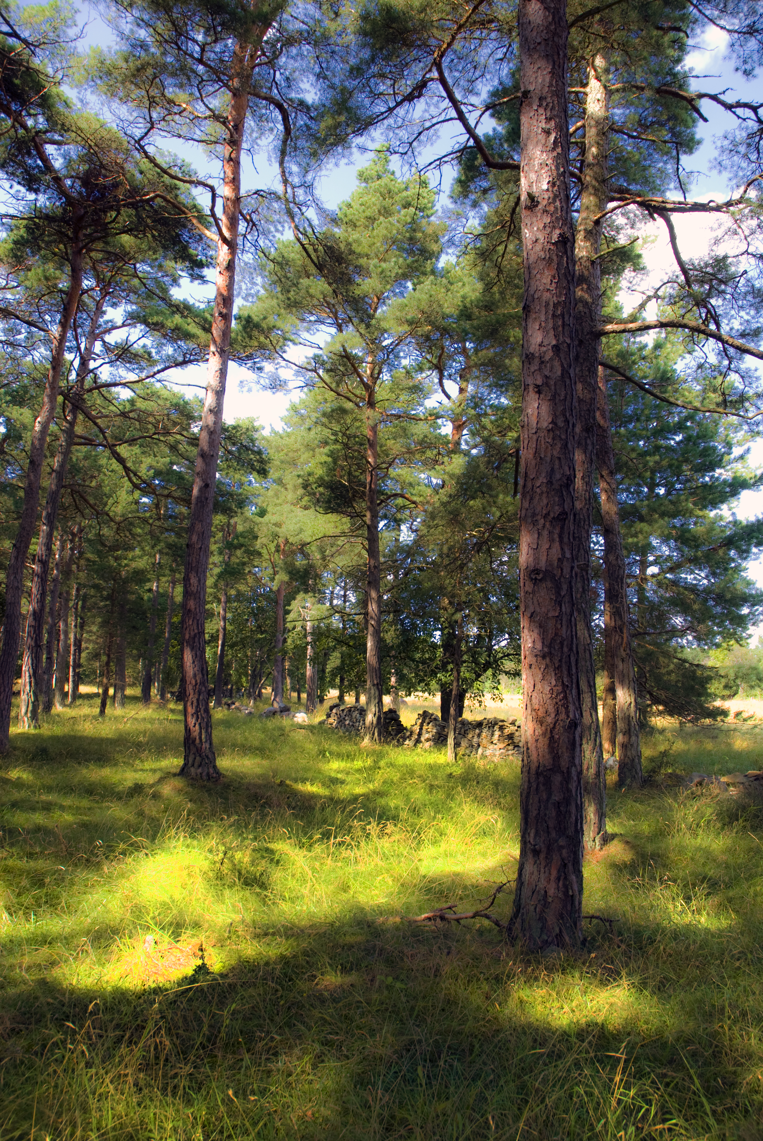 Forest, Gotland